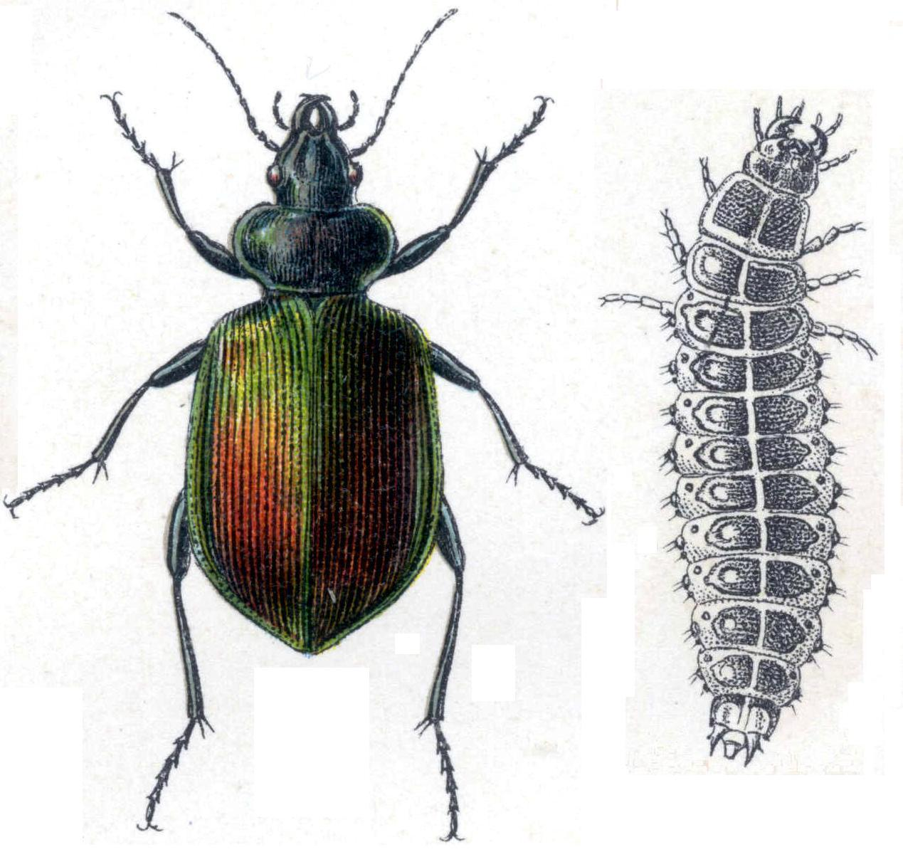 Derivative work